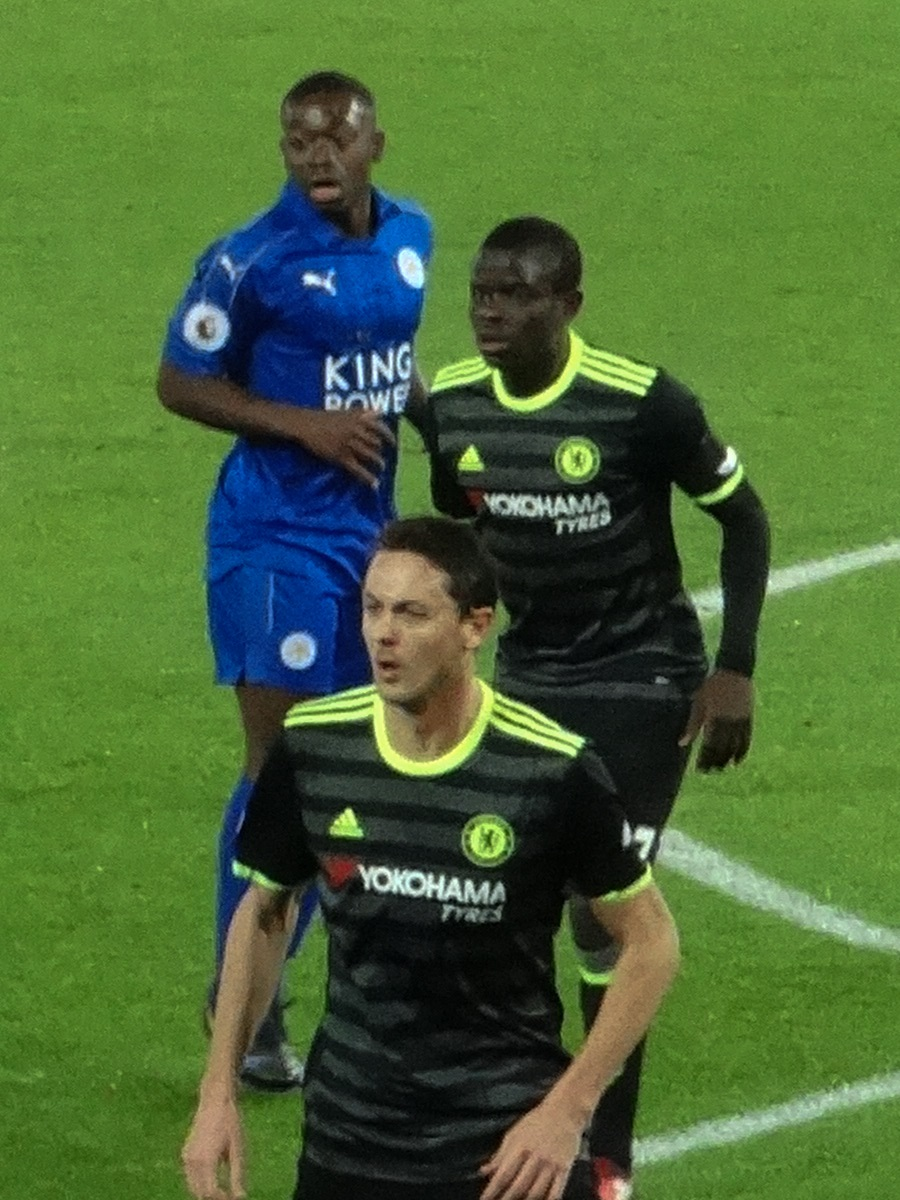 Leicester 0 Chelsea 3 (32171871392)